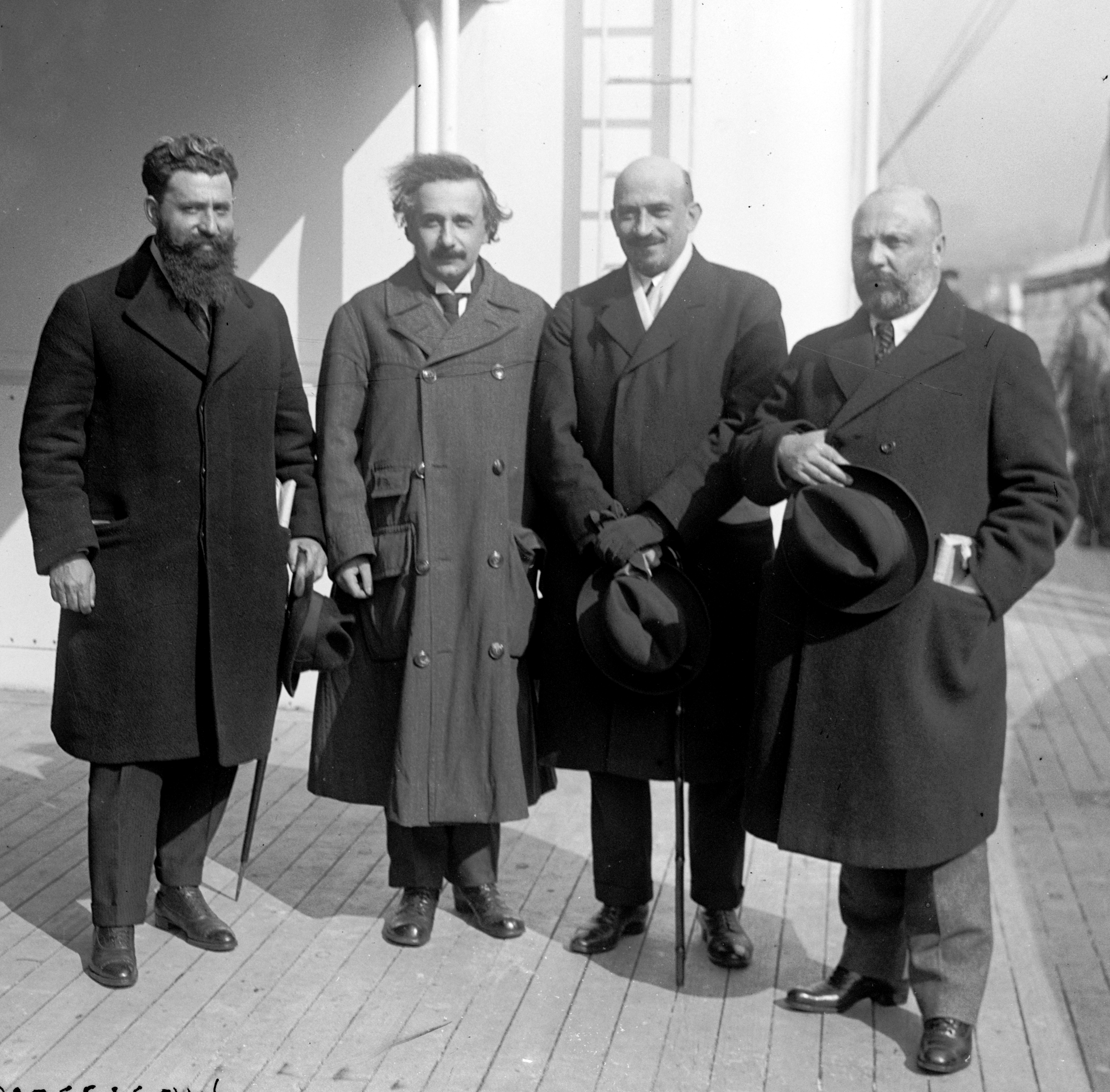 Mossessohn, [Albert] Einstein, [Chaim] Weizmann and Ussischkin [Ussishkin].